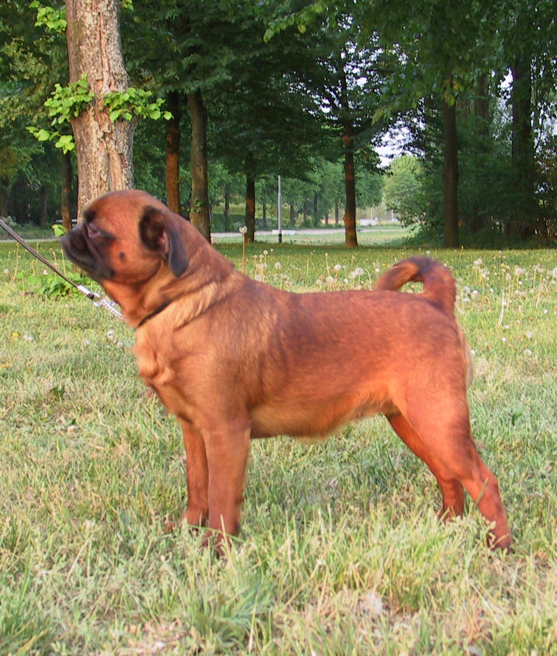 Dutch, Int., Belgian, French, German, Lux. & Australian Ch.Leo Belgicus Grace Under Fire